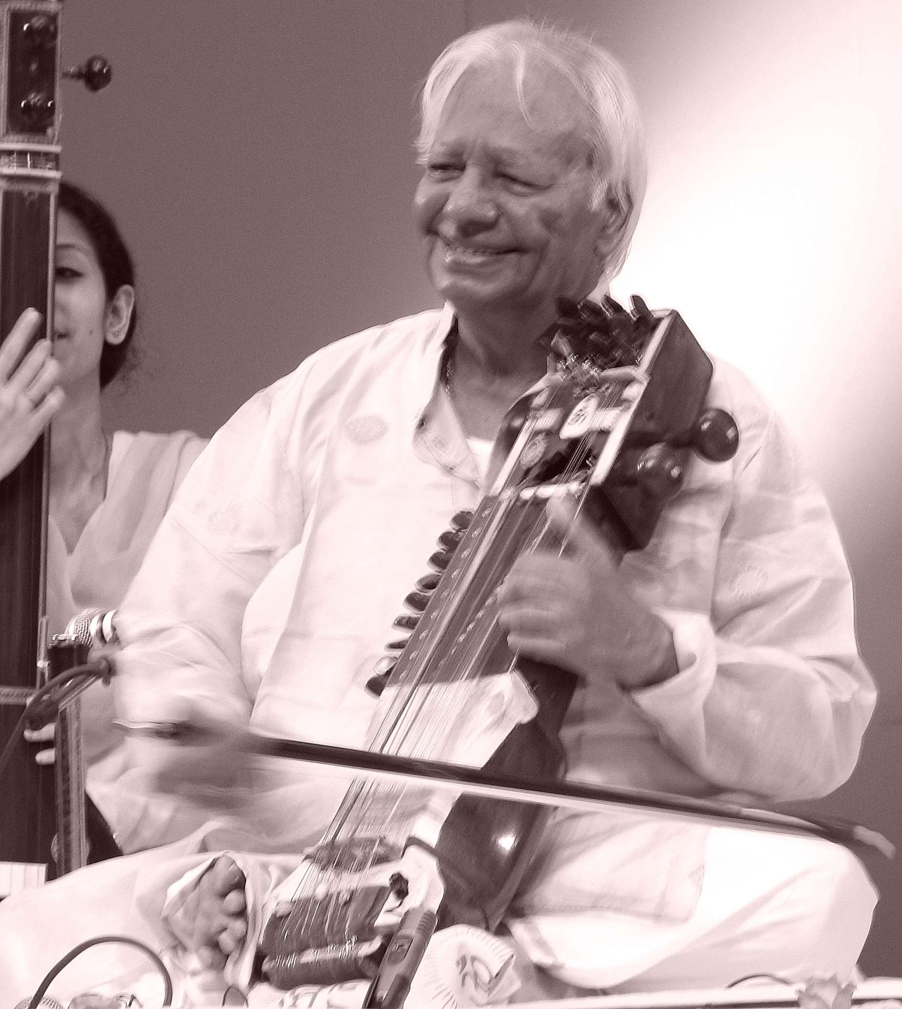 Ram Narayan in Delhi in October 2010